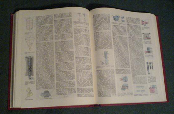 Open volume of Soviet Lithuanian Encyclopedia.